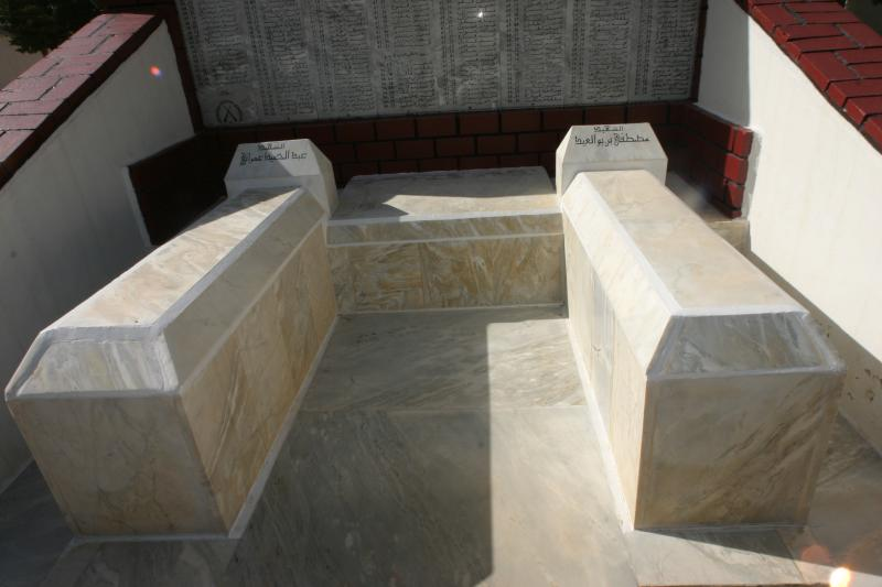 Mostefa Ben Boulaïd grave